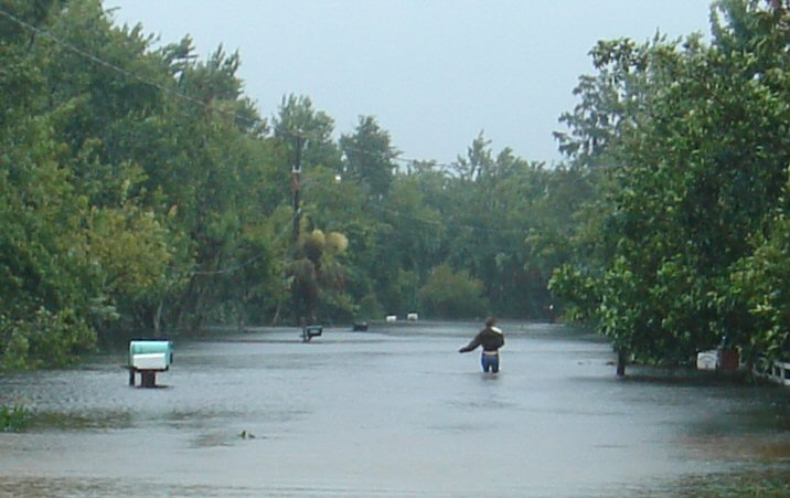 Flooding on Merritt Island during tropical storm Fay, 2008. A flooded street. Cropped version of larger image.